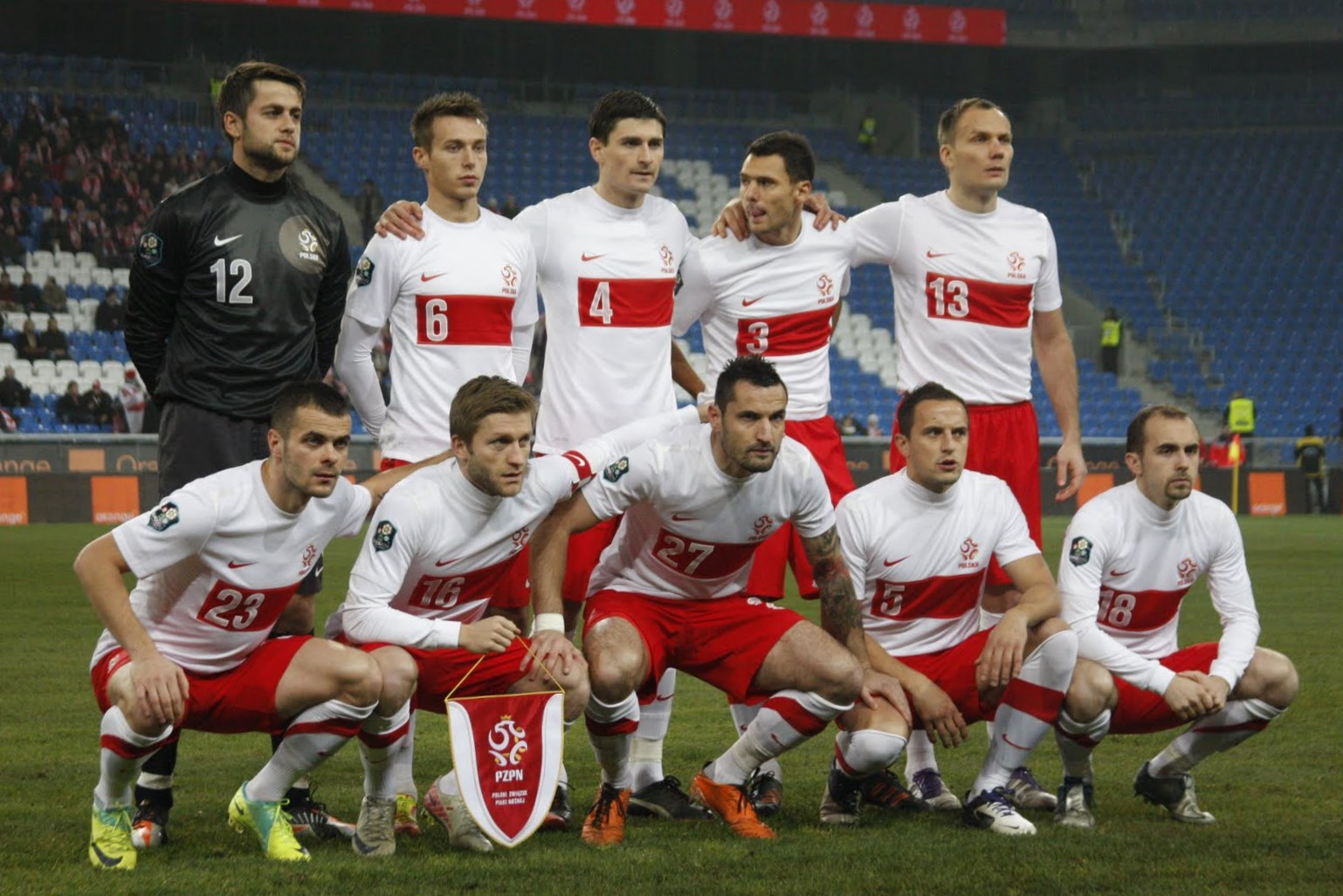 Poland national football team before math against Hungary